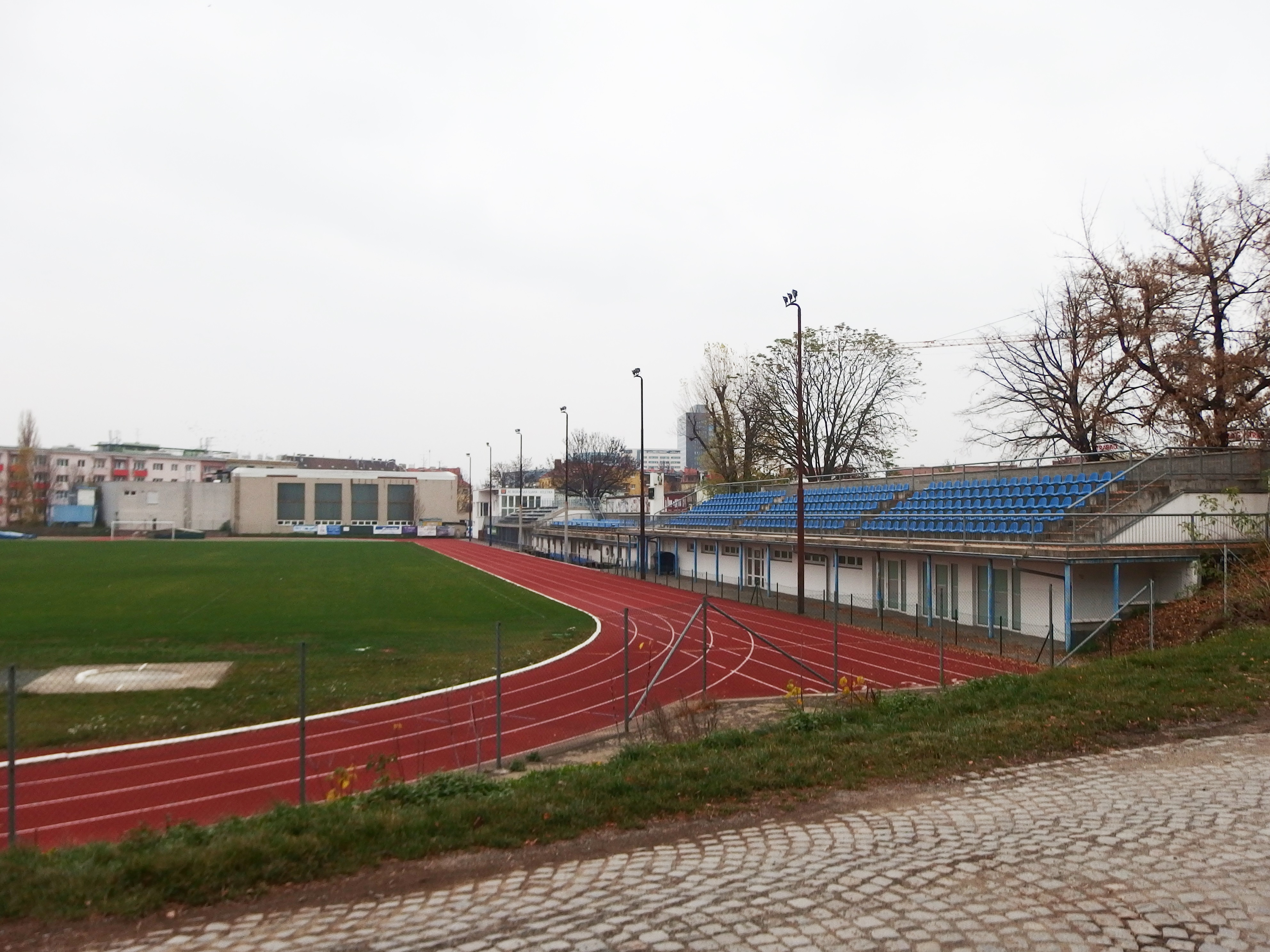 Brno, Czech Republic, part Štýřice.